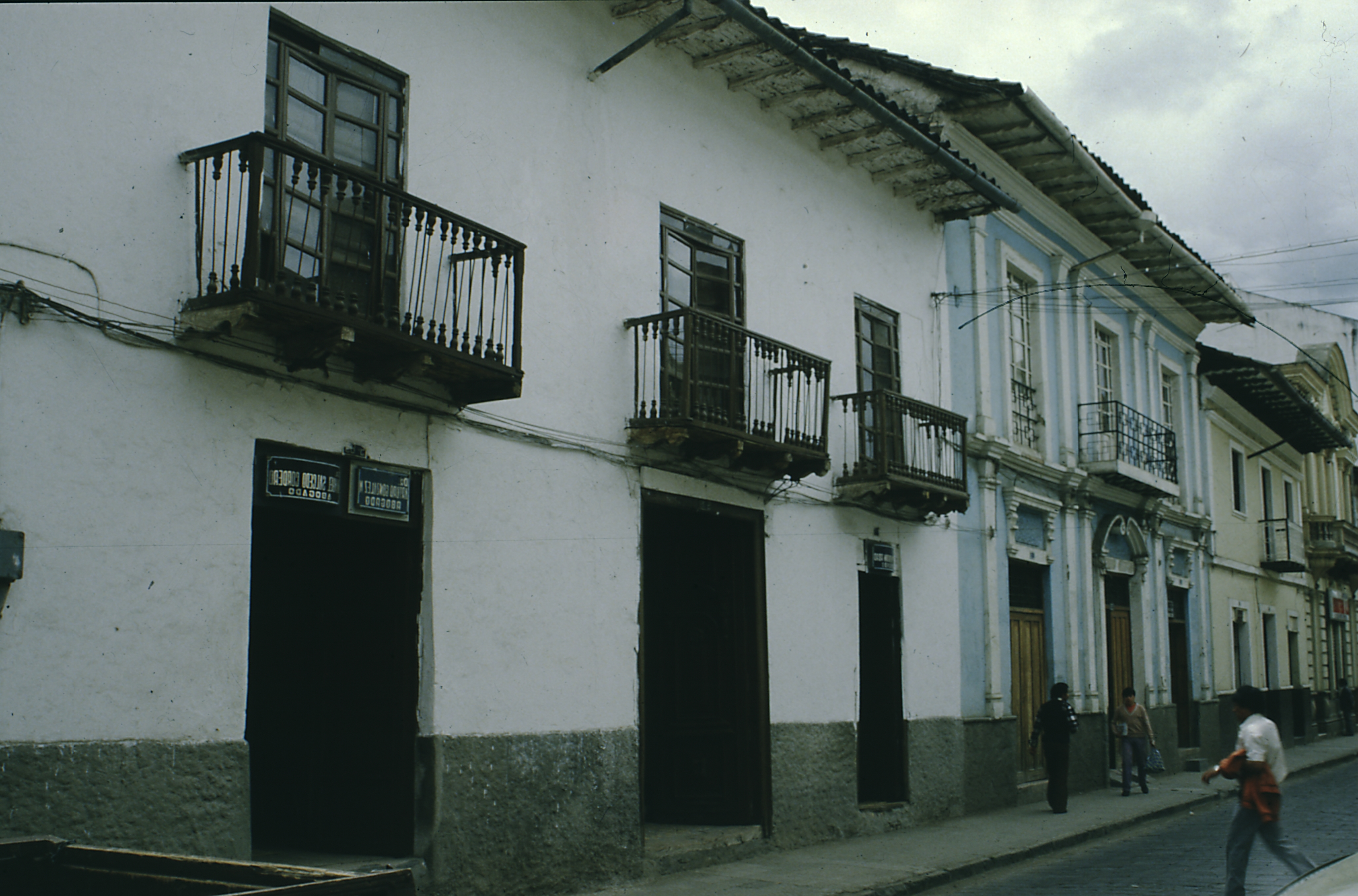 This photo has been scanned with a Reflecta DigitDia 6000 image scanner. Personality rights warningAlthough this work is freely licensed or in the public domain, the person(s) shown may have rights that legally restrict certain re-uses unless those depicted consent to such uses. In these cases, a model release or other evidence of consent could protect you from infringement claims.